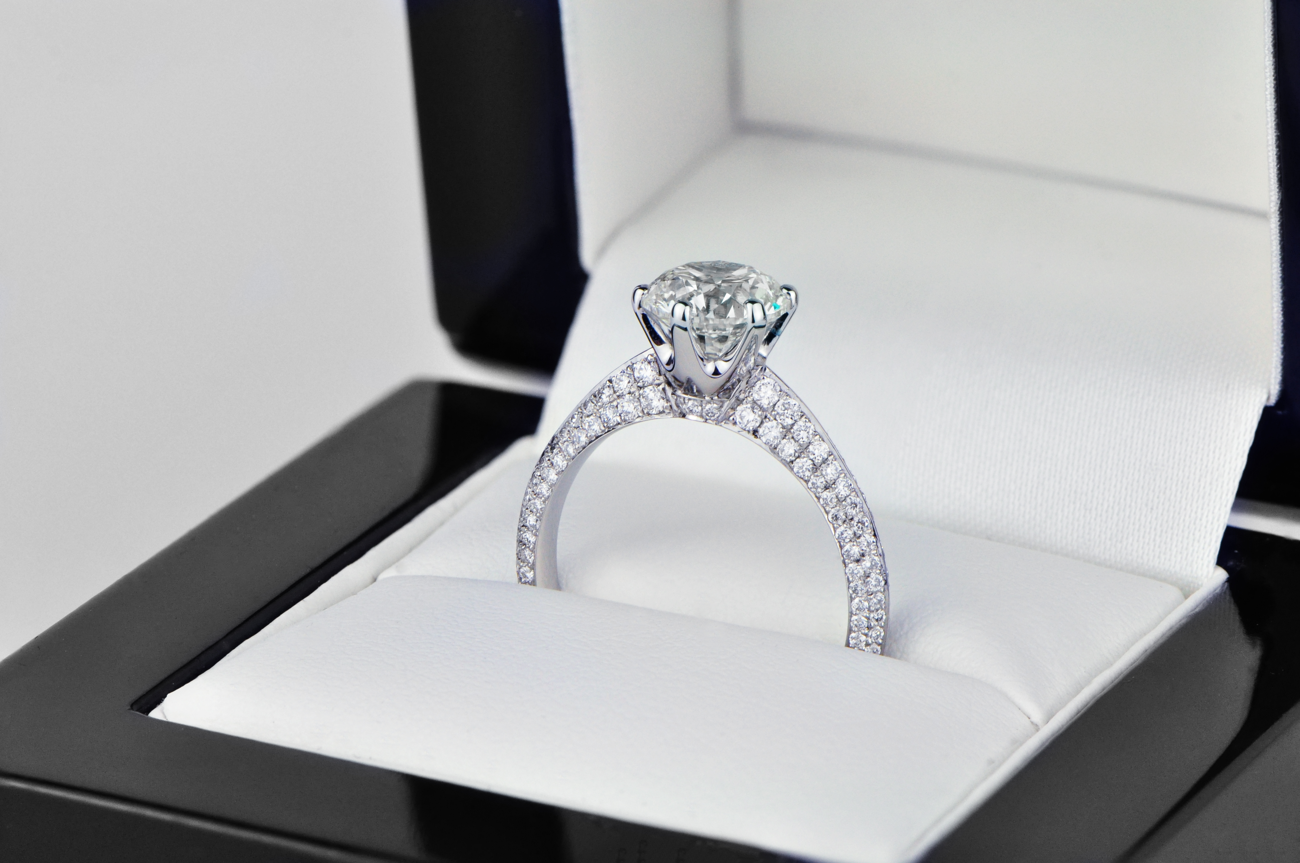 A bespoke engagement ring created in the Hatton Garden based workshop. This particular ring features over 152 diamonds in the pavé set diamond band.